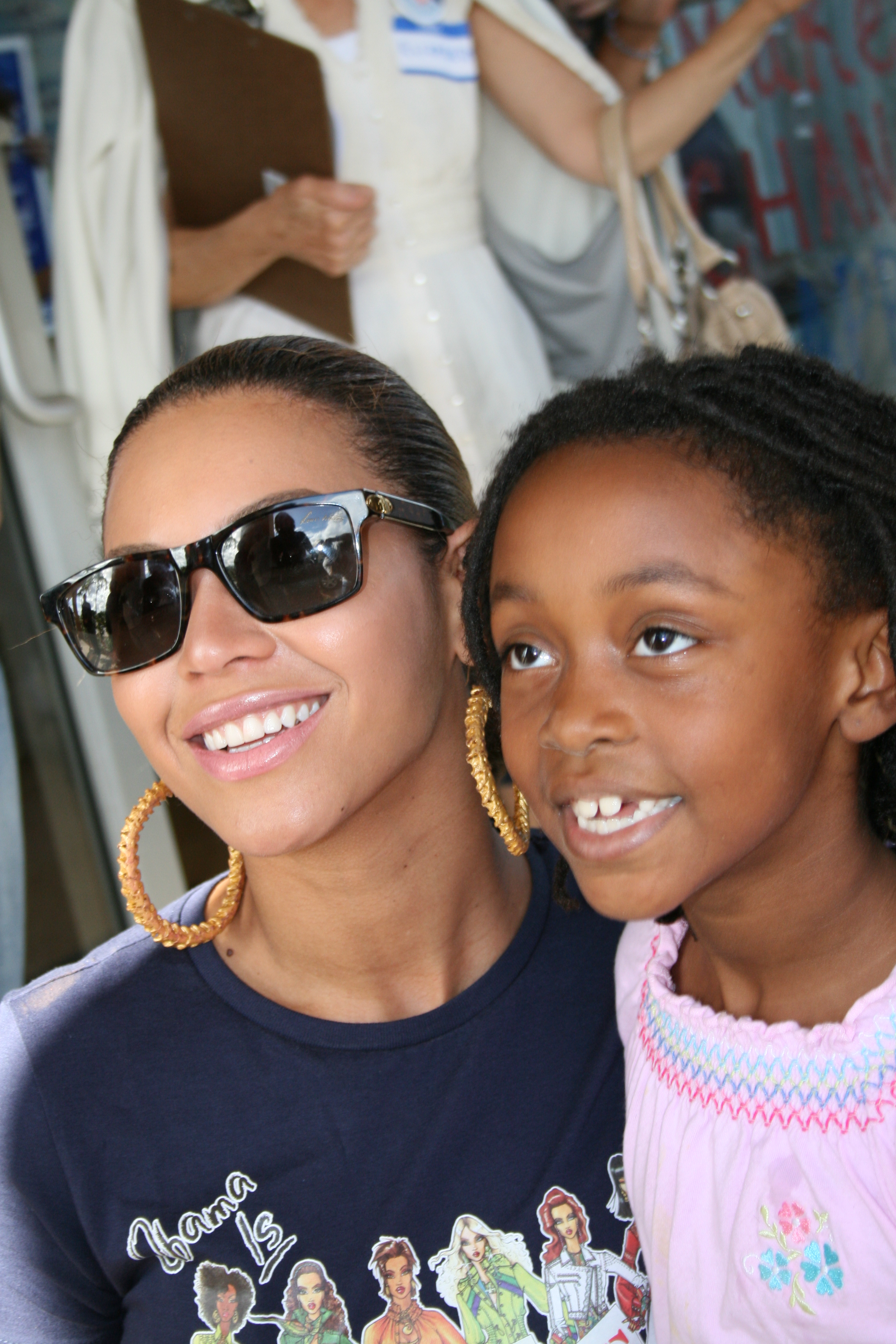 Knowles at early voting in Florida.